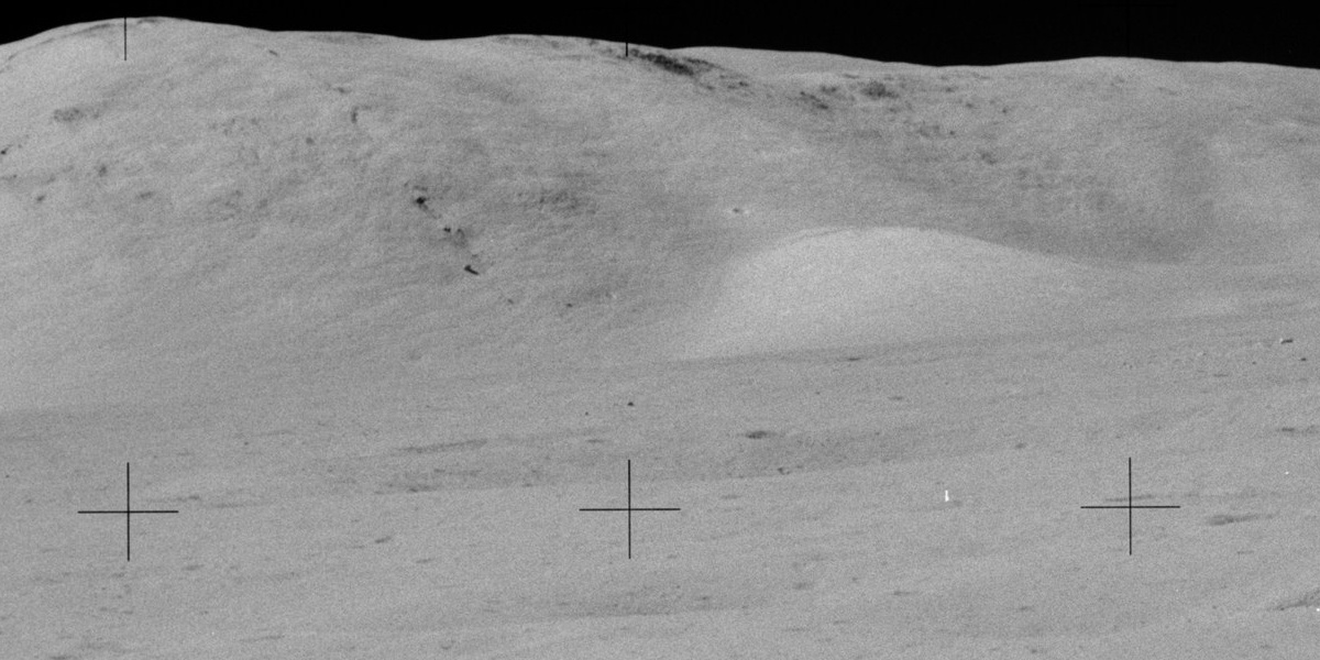 Shakespeare, Taurus–Littrow valley, the moon. Facing southeast towards Mons Vitruvius on the horizon.